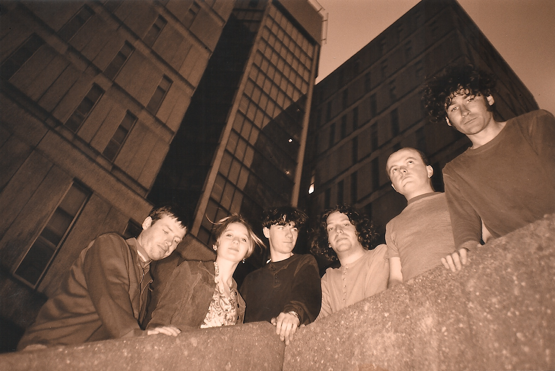 The band Prolapse posing near Leicester Polytechnic (currently De Montford University).